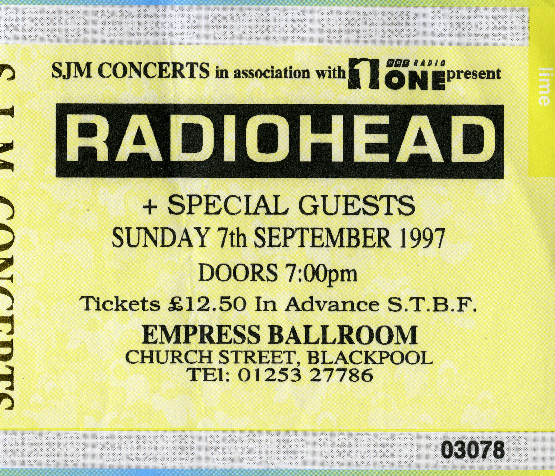 Ticket for a Radiohead concert in Blackpool, 1997.